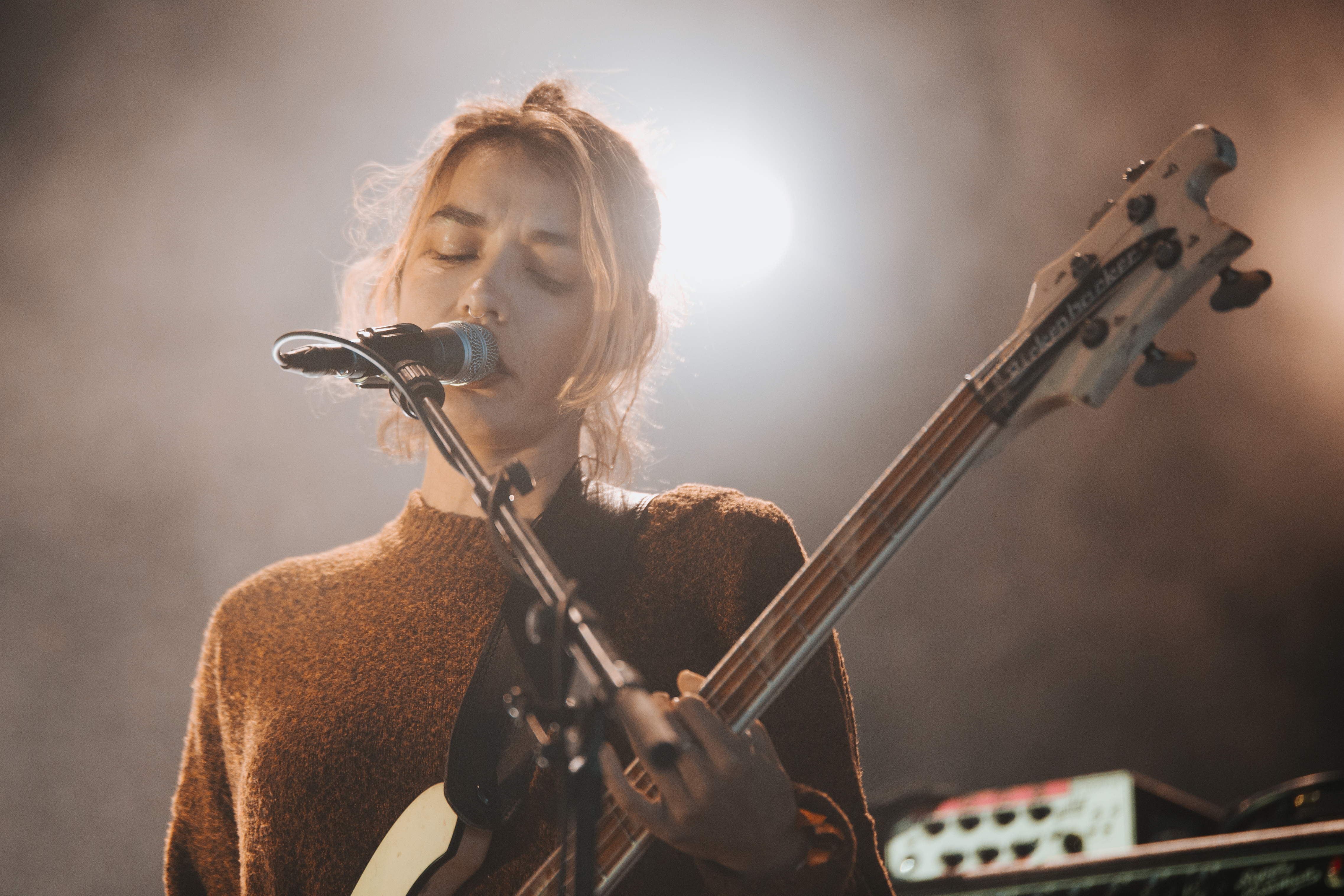 Jenny Lee Lindberg of the band Warpaint, performing at the 2017 Roskilde Festival.